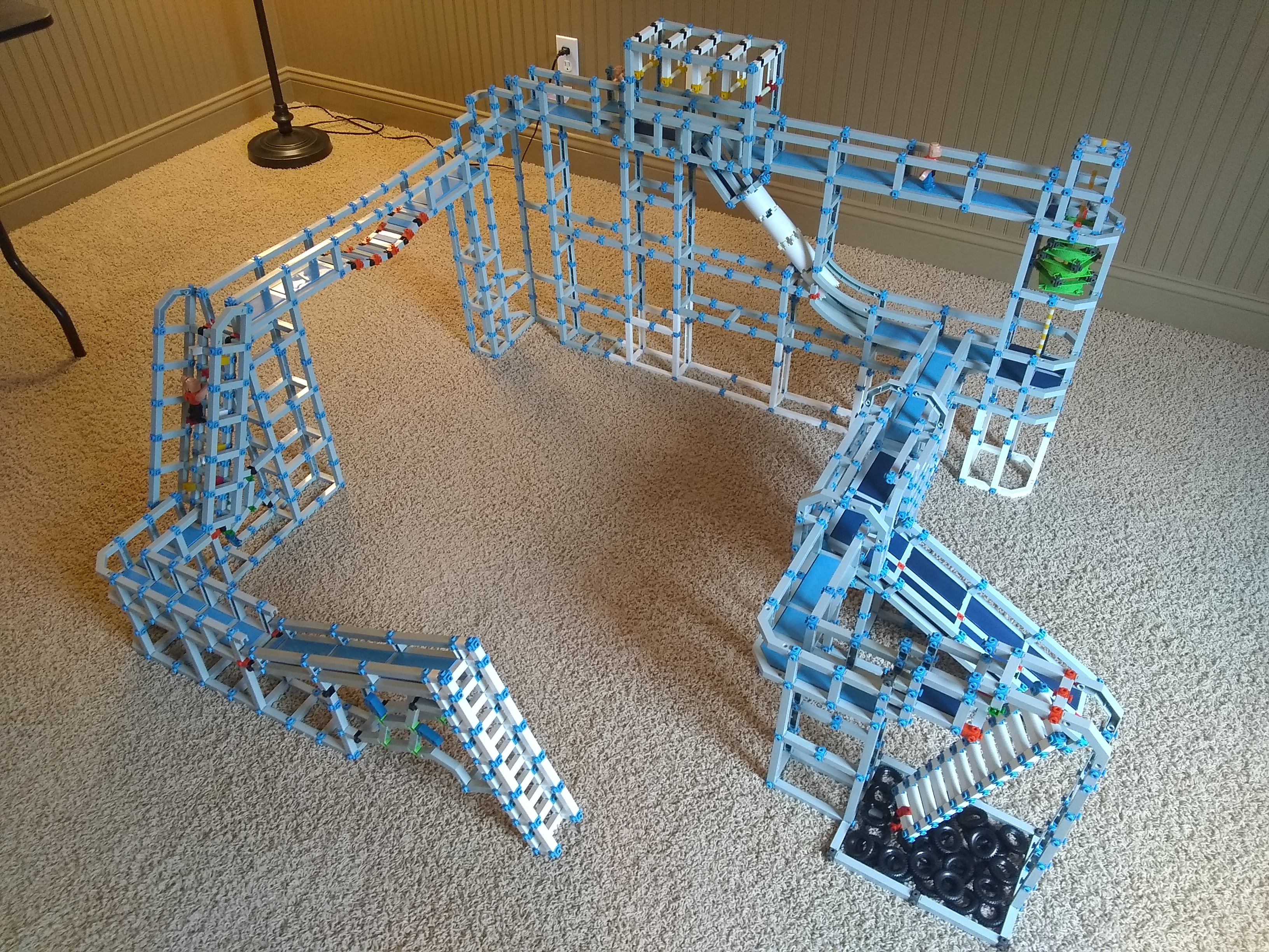 Challenge course made with Construx